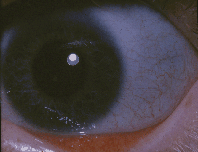 The patient was a 15-year-old male with osteogenesis imperfecta who had been followed for some years because of fractures. The patient was first seen at age 30 months. He had a fracture of the right tibia at age 18 months without trauma. At 30 months he had a new fracture of the right tibia and a fracture of the left finger from a fall from a bicycle. The sclerae was noted to be blue.